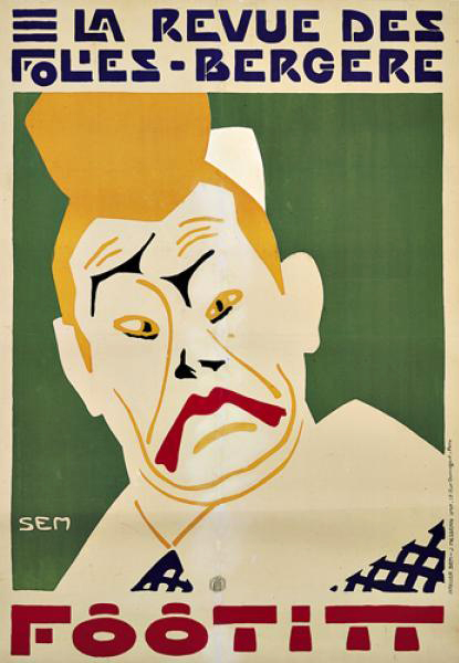 French poster